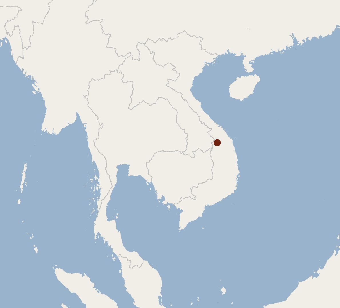 According to Truong Son & al., 2015